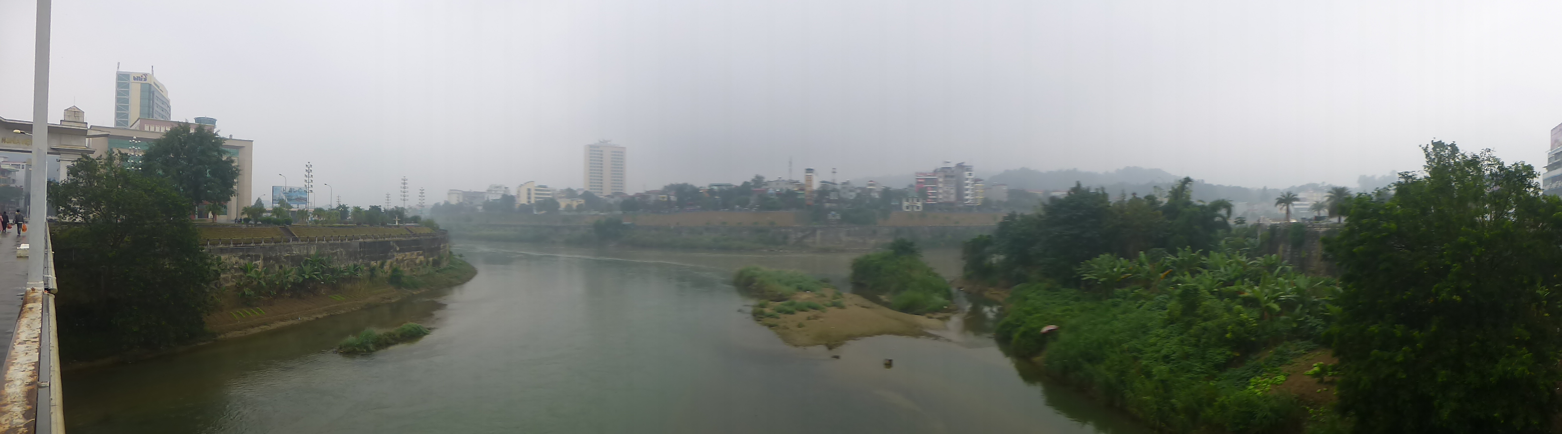 The confluence of the Nanxi River with the Red River (background). The photo taken from the border bridge across the Nanxi River, looking downstream.